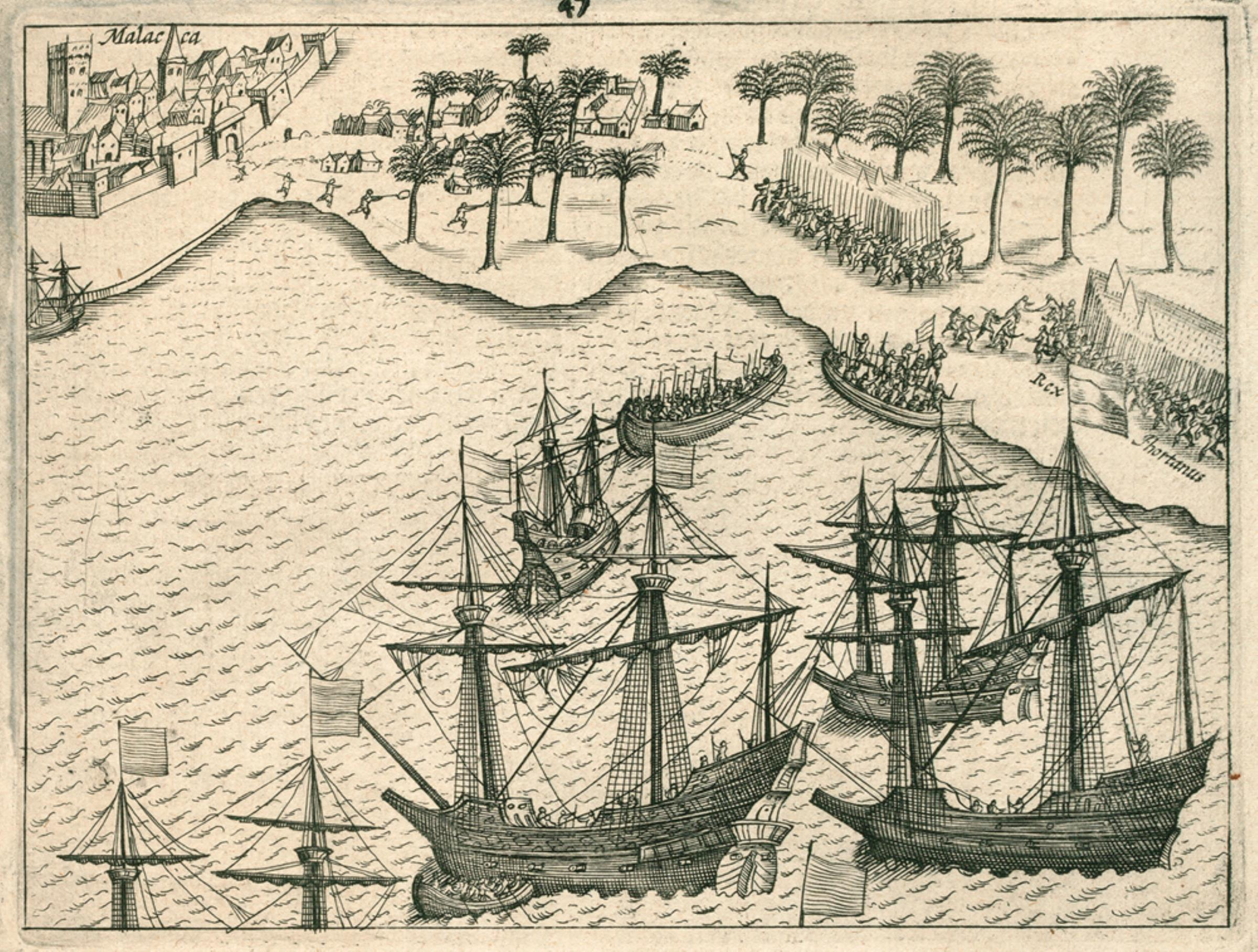 Siege of Malacca by Cornelis Matelief, 1606. Malacca can be seen in the background. Dutch come ashore in sloops and advance on the city.